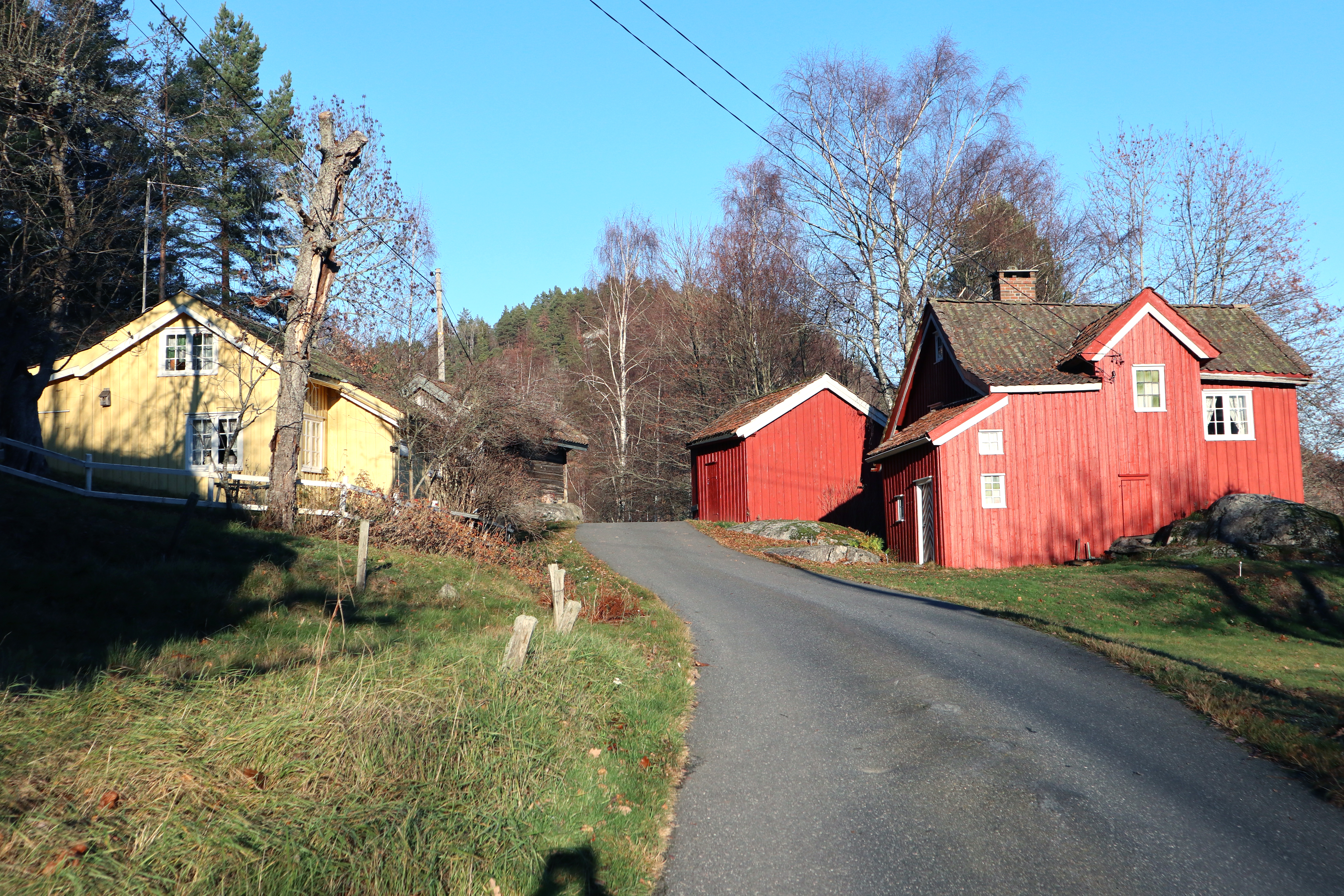 Old houses by Rødsveien in Søndeled Risør